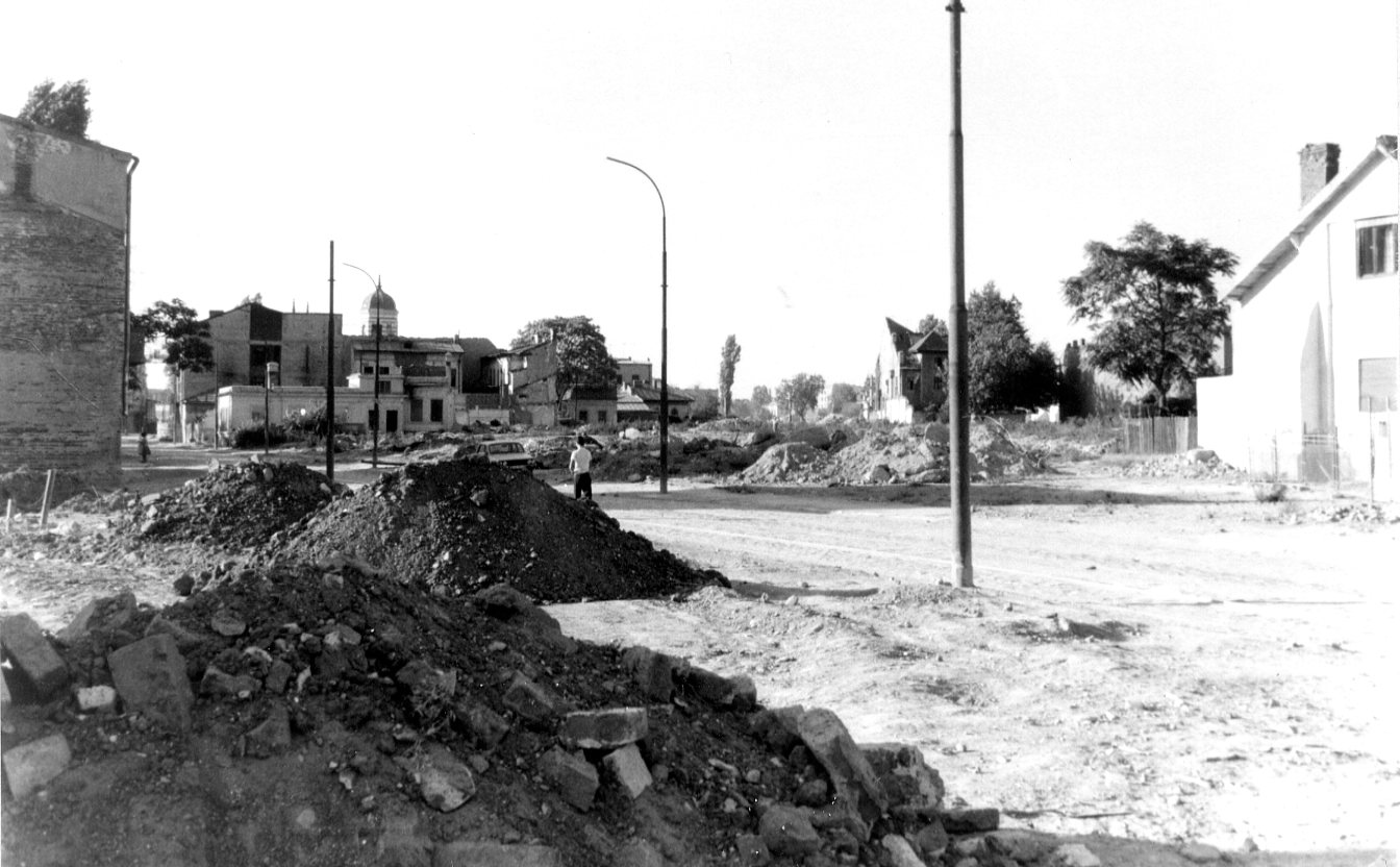 Demolitions in Bucharest, Ceasescu's time